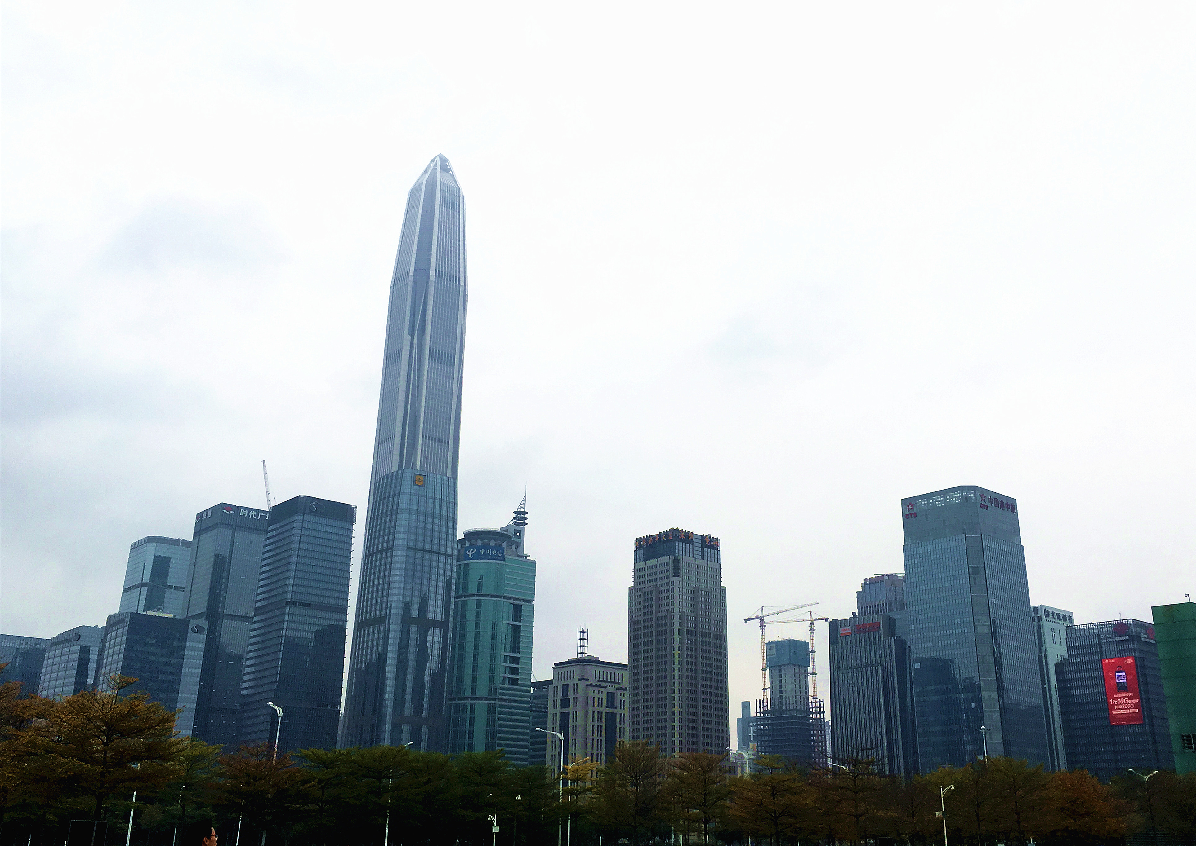 A view of Shenzhen's Futian Centrail Business District in February 2017